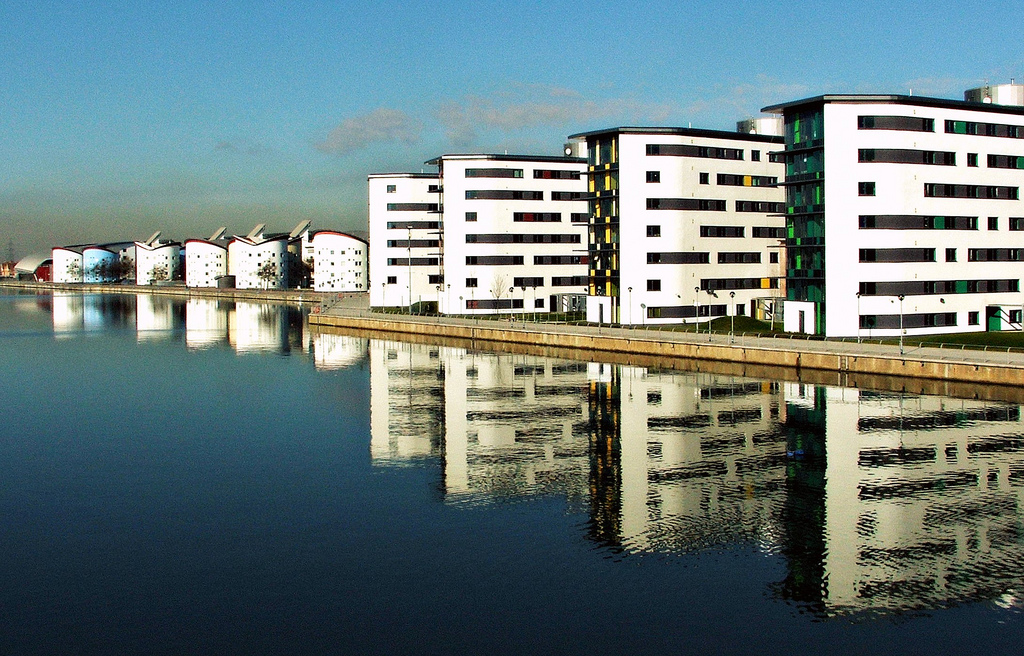 University of East London at The Docklands Campus 2010